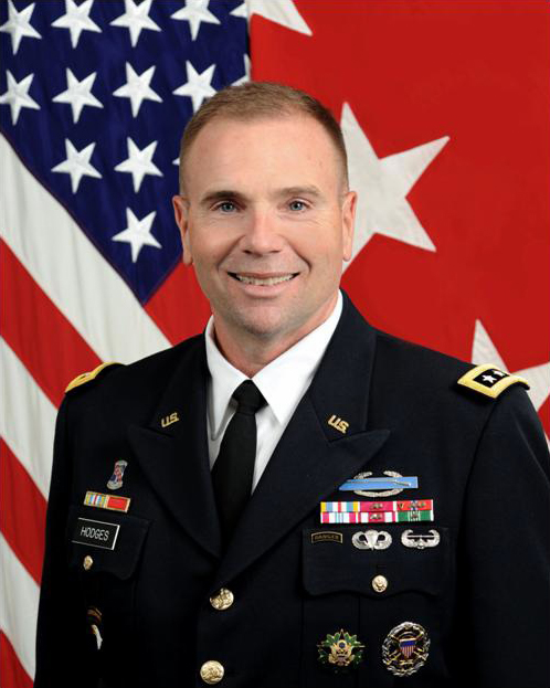 Lt. Gen. Frederick B. Hodges